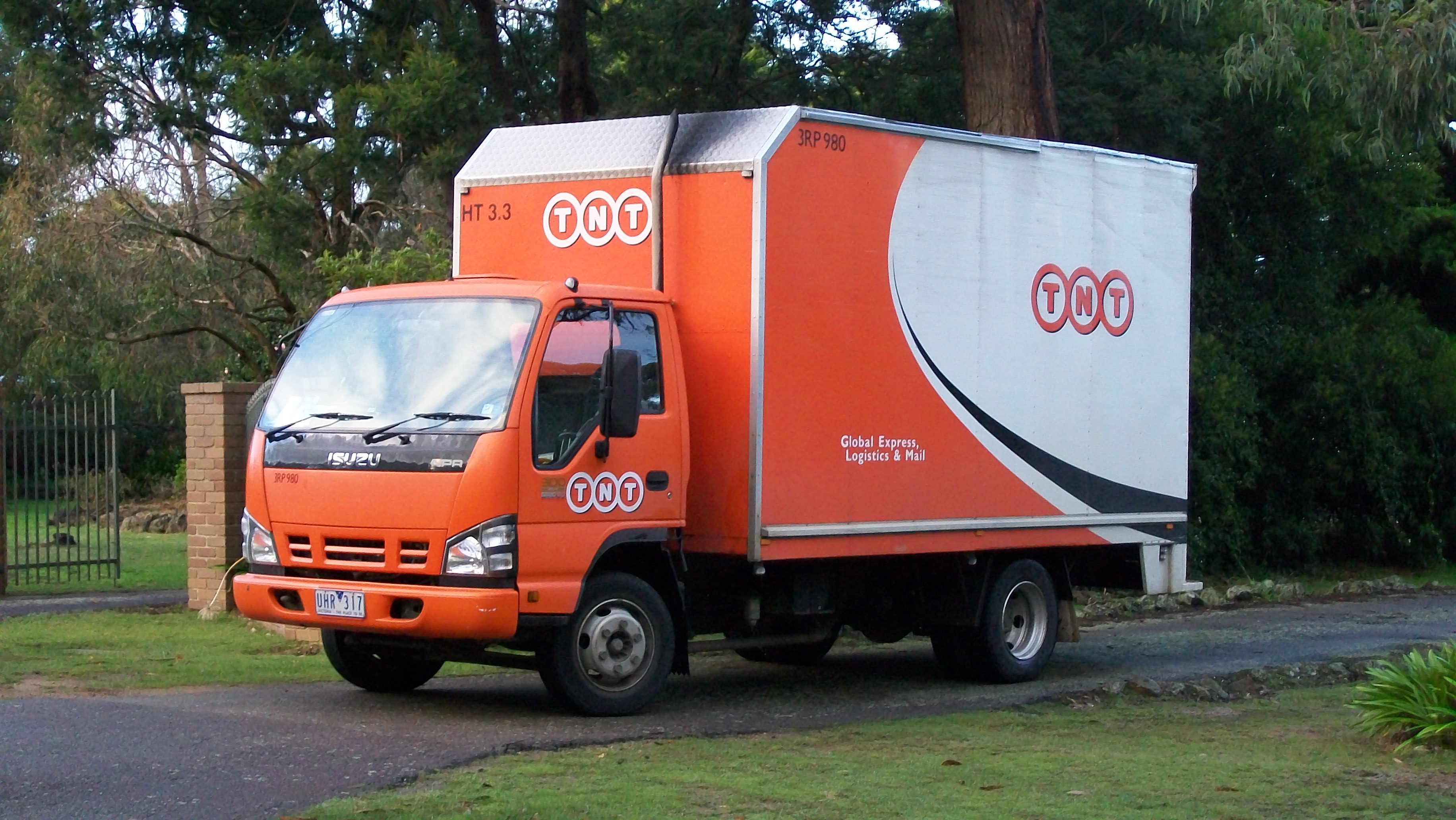 TNT Express freight van, Melbourne, Australia